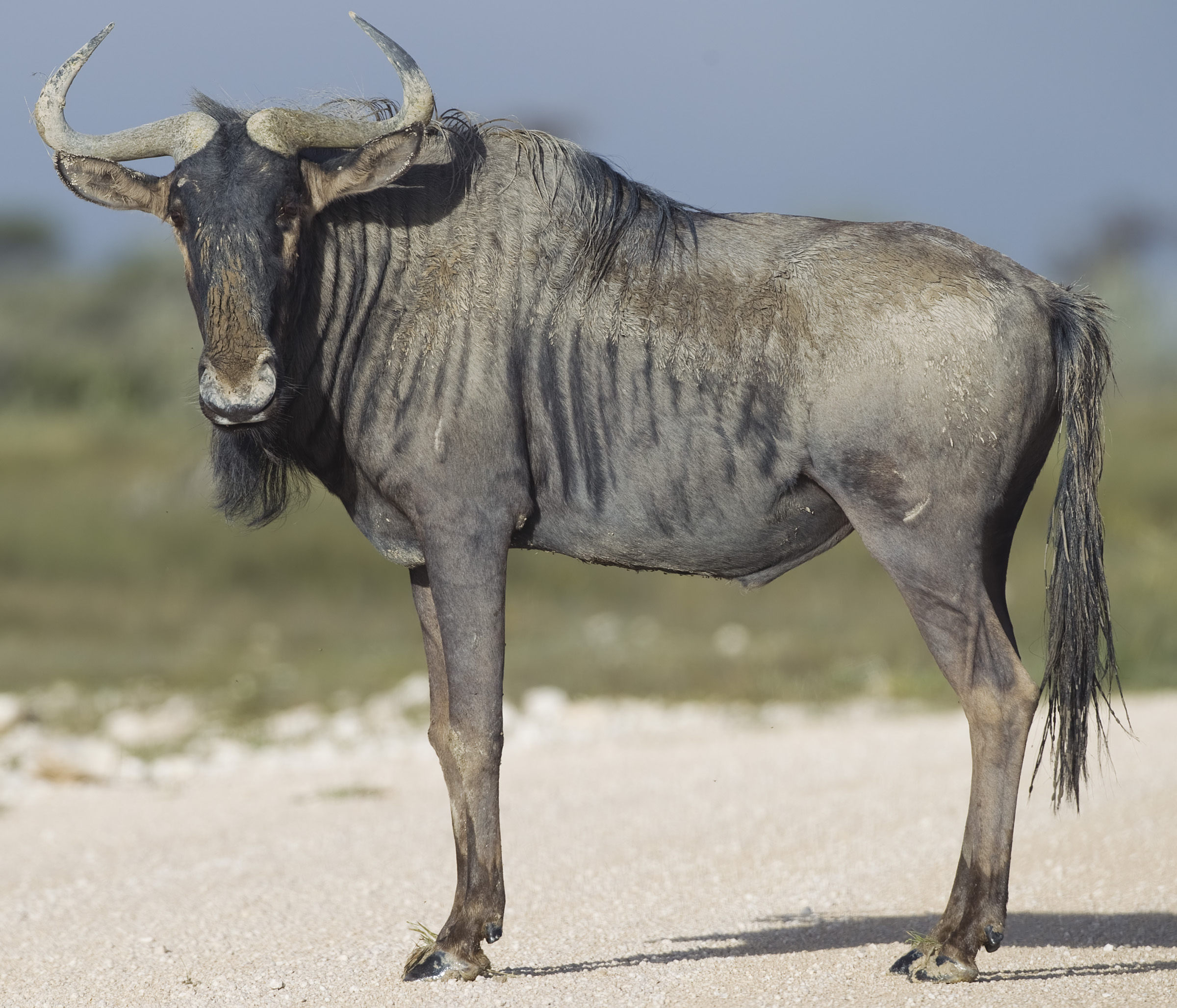 Blue wildebeest